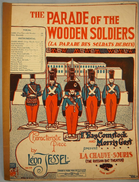 Sheet music cover for "The Parade of the Wooden Soldiers"; music by Leon Jessel, words by Ballard MacDonald. Title: THE PARADE OF THE WOODEN SOLDIERS (LA PARADE DES SOLDATS DE BOIS) Music by Leon Jessel Arranged by J. Bodewalt Lampe From "La Chauve-Souris (The Russian Bat Theater)" by F. Ray Comstock and Morris Gest Song is 4 Pages Long Music is for Voice and Piano Published in 1922 by Edw. B. Marks Music Co. Note: Brown tape on left to hold torn cover